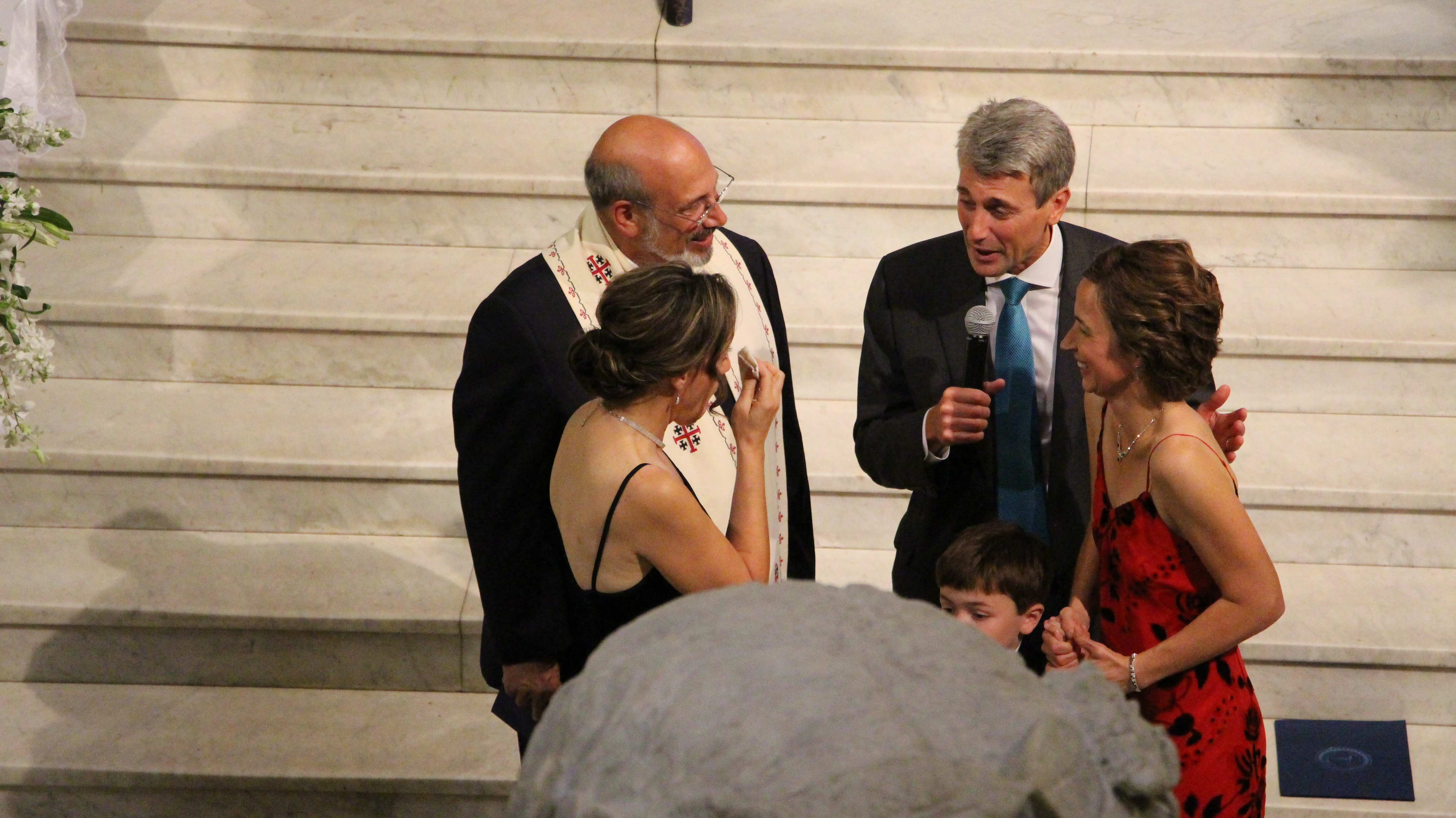 Minnesota's first same-sex marriage took place in the Minneapolis City Hall between Margaret Miles, left, and Cathy ten Broeke, right. It was officiated by Minneapolis mayor R.T. Rybak.